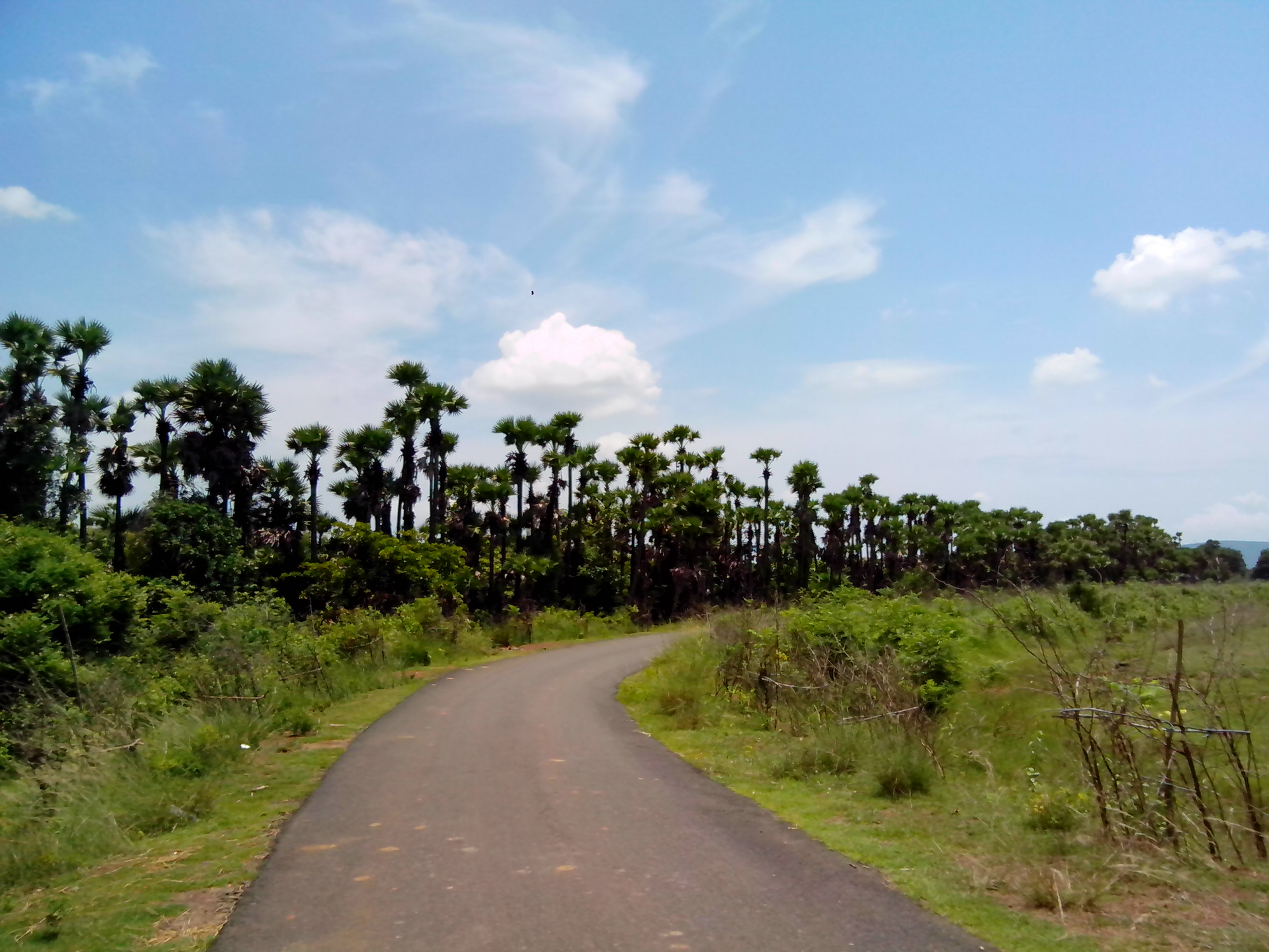 A Road near Alamanda Village, Vizianagaram district, Andhra Pradesh